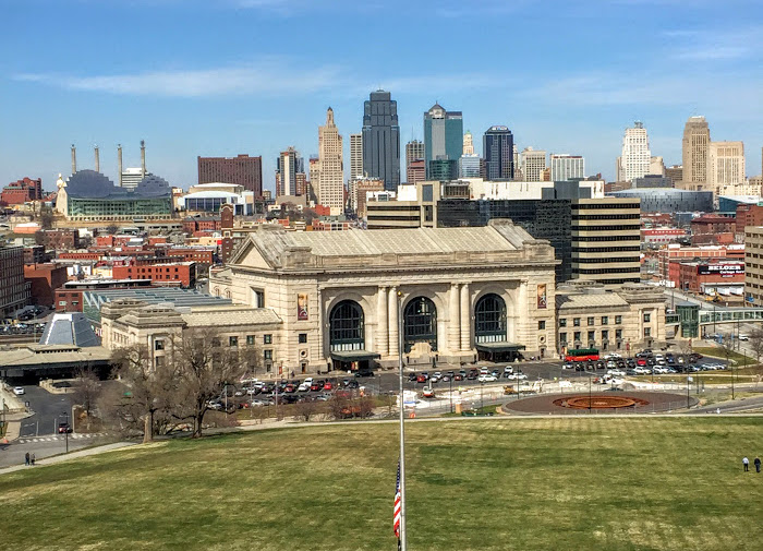 Downtown skyline from Liberty Memorial.